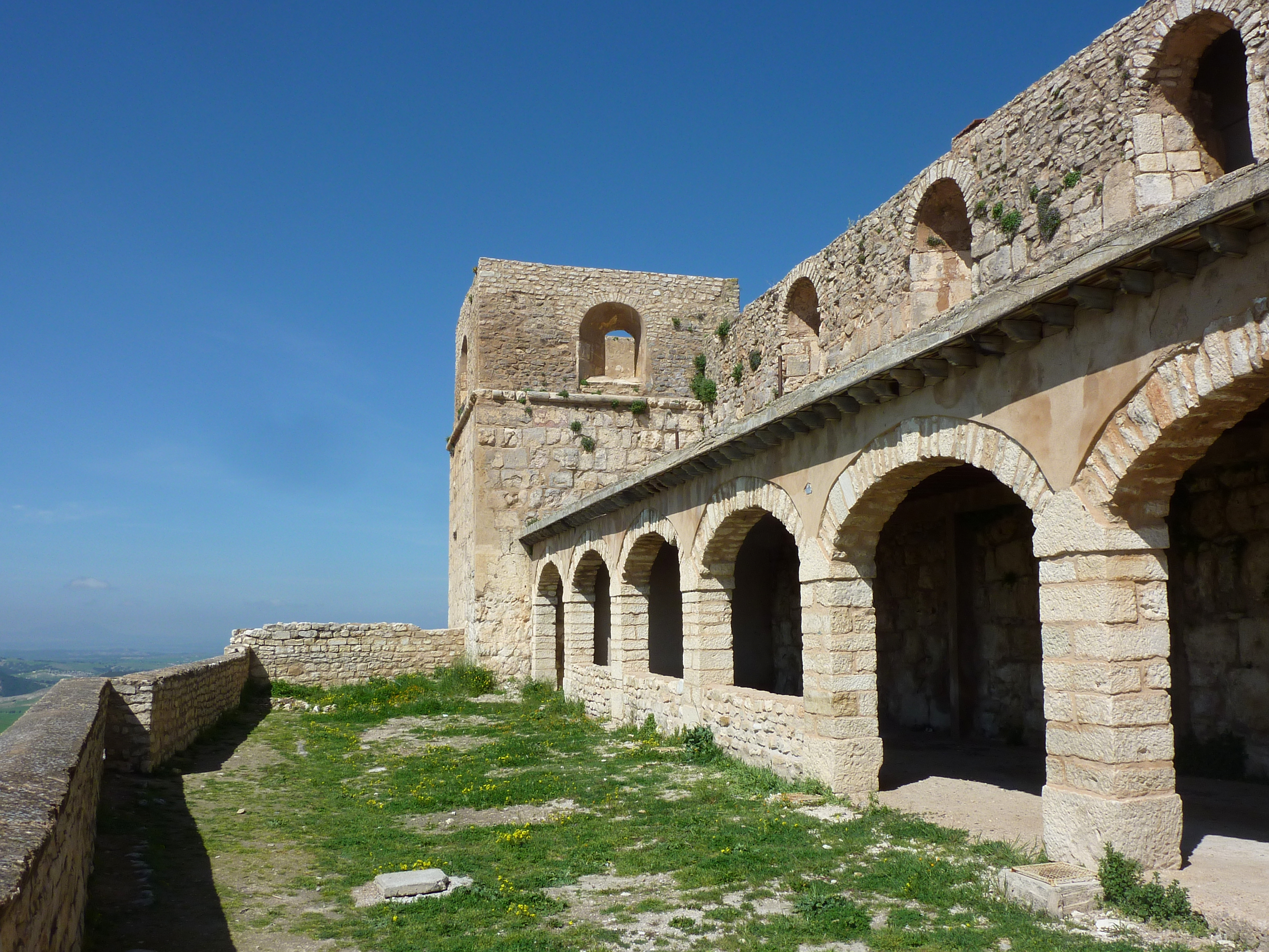 Fort of El Kef (17th and 18th century)